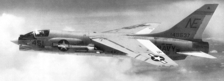 A U.S. Navy Vought F-8D Crusader (BuNo 148637) from Fighter Squadron 111 (VF-111) "Sundowners" in flight. VF-111 was assigned to Carrier Air Wing 2 (CVW-2) aboard the aircraft carrier USS Midway (CVA-41) for a deployment to Vietnam from 6 March to 23 November 1965. During this deployment, 148637 was shot down by ground fire over North Vietnam on 8 May 1965. The pilot, Cdr. James David La Haye, was killed.